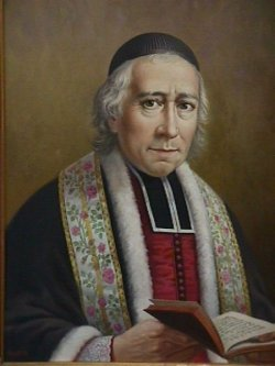 Painting of Father Chaminade, founder of the Society of Mary